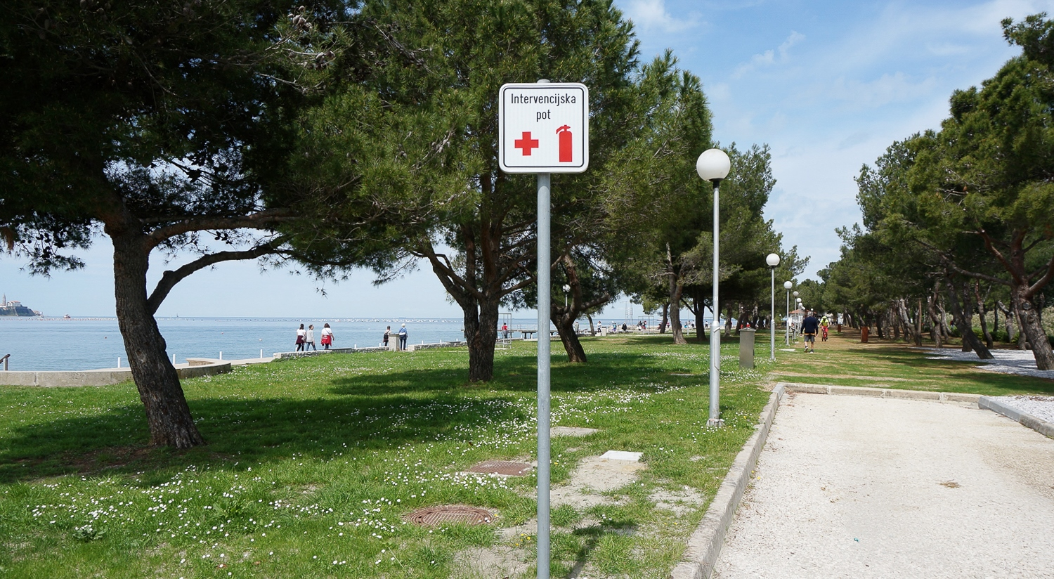 Strunjan Nature Park, Piran, Portorož, Slovenia, European Union